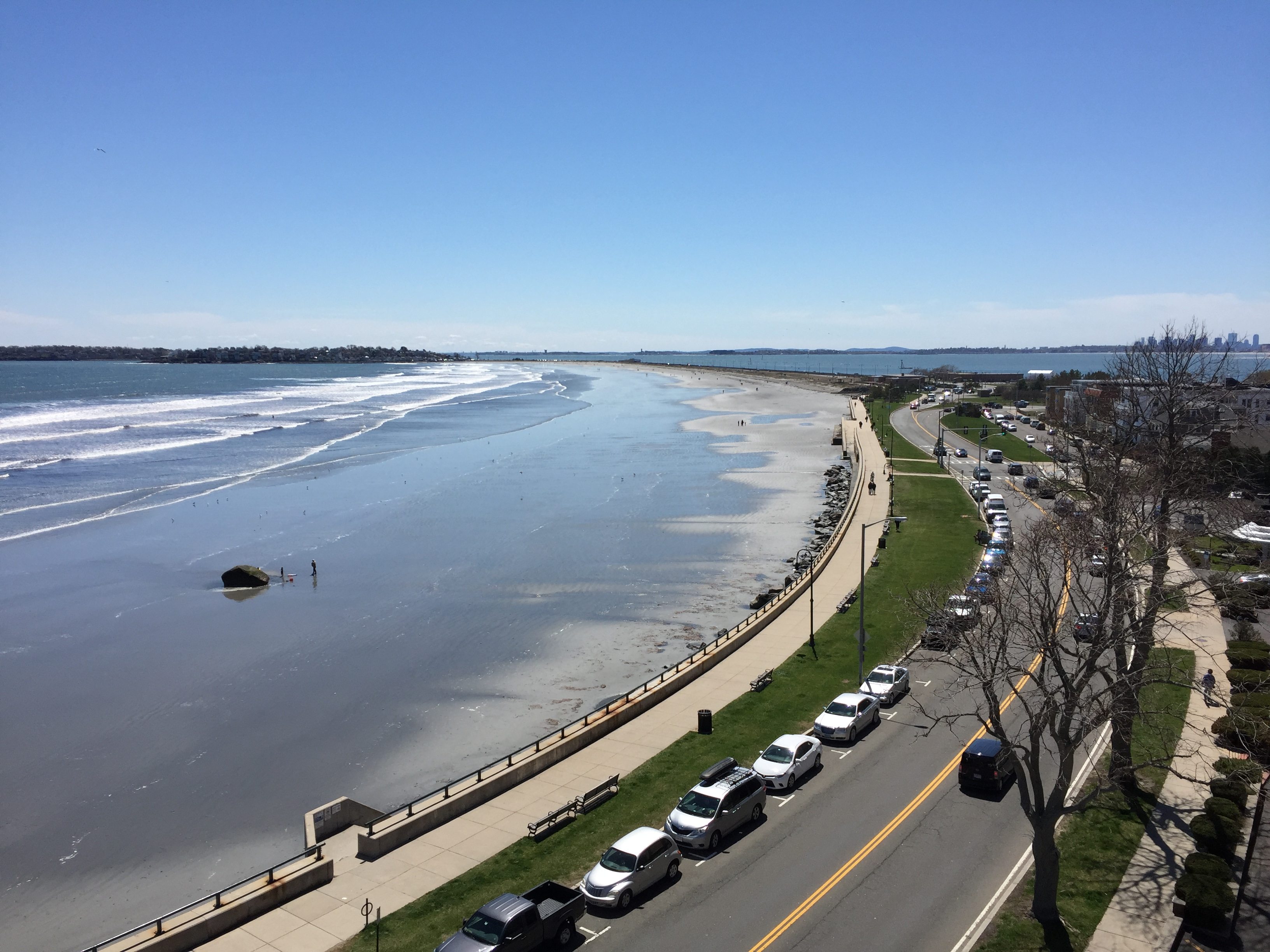 Lynn Shore Drive, Lynn, MA,Looking South to Boston Skyline